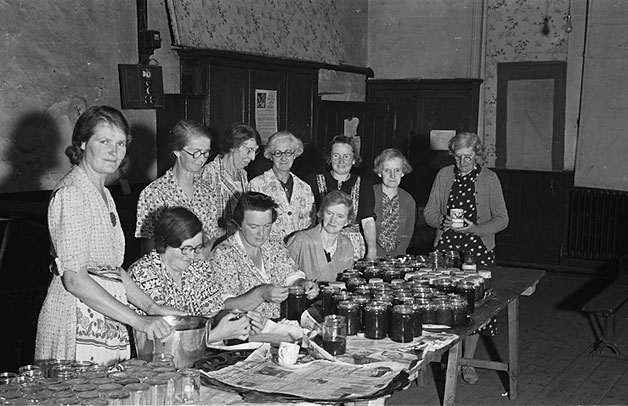 Teitl Cymraeg/Welsh title: Aelodau o Sefydliad y Merched, Meifod, yn gwneud jam Ffotograffydd/Photographer: Geoff Charles (1909-2002) Nodyn/Note: embers of Meifod WI busy "jamming" under the Ministry of Food fruit preserving scheme, including Miss A. Roberts, Mrs E. Morgan (Secretary), Mrs G. Jones (Treasurer), Mrs G. Pickstock, Mrs Dupuis, Miss D. Jones, Mrs Smith, Mrs Gittings, and Mrs J. Pickstock. Dyddiad/Date: July 12, 1941 Cyfrwng/Medium: Negydd ffilm / Film negative Cyfeiriad/Reference: (gcc09177) Rhif cofnod / Record no.: 3473120 3473120 Rhagor o wybodaeth am gasgliad Geoff Charles yn Llyfrgell Genedlaethol Cymru Ceir mwy o ffotograffau o Gymru a'r Gororau adeg yr Ail Ryfel Byd ar wefan .uk More information about the Geoff Charles Collection at the National Library of Wales More photographs of Wales and the English border during the Second World War can be found at .uk